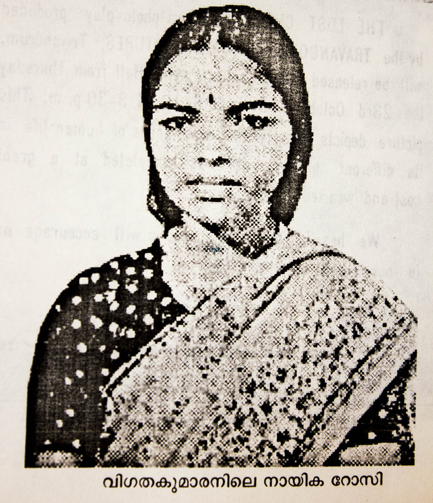 A photograph of PK Rosy, probably from an original newspaper source.